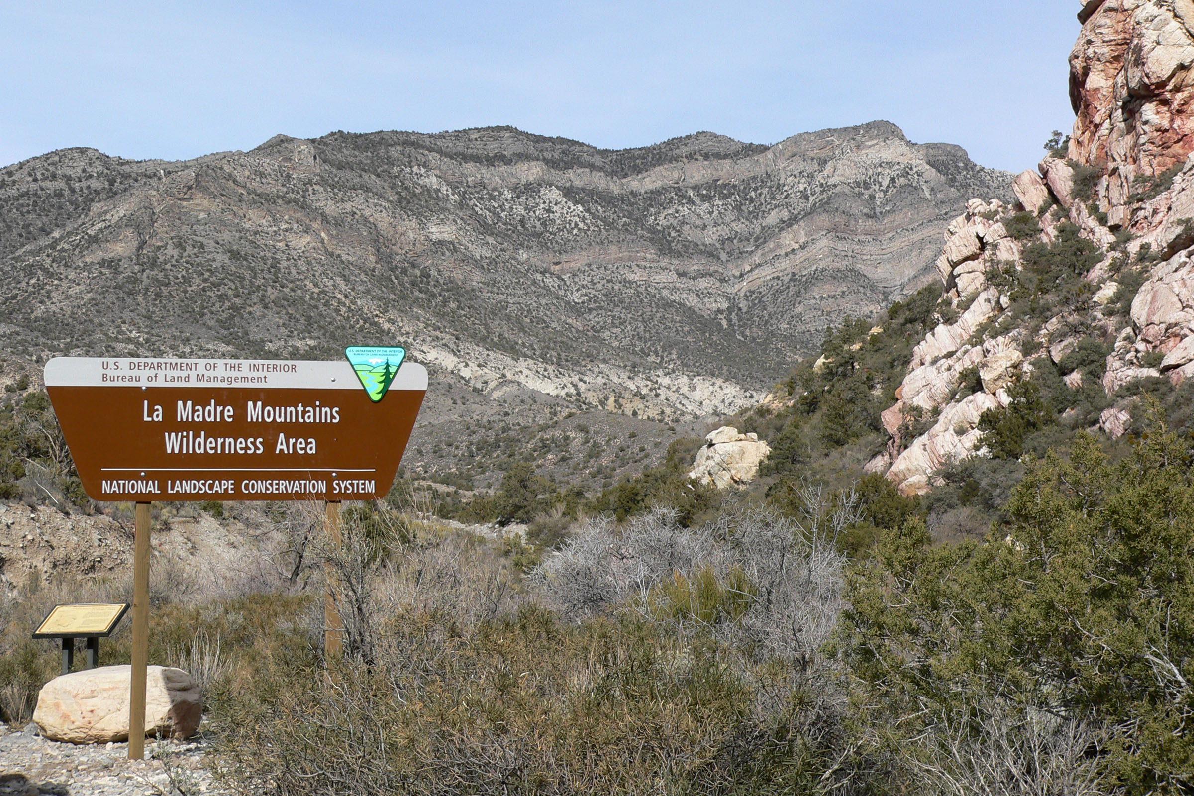 Sign for the La Madre Mountains Wilderness Area, seen on the White Rock Loop trail, Red Rock Canyon, southern Nevada